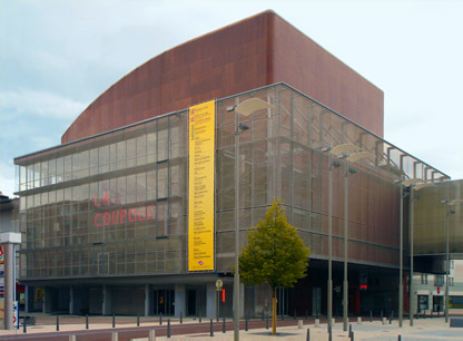 Outside the facade of the Theatre La Coupole